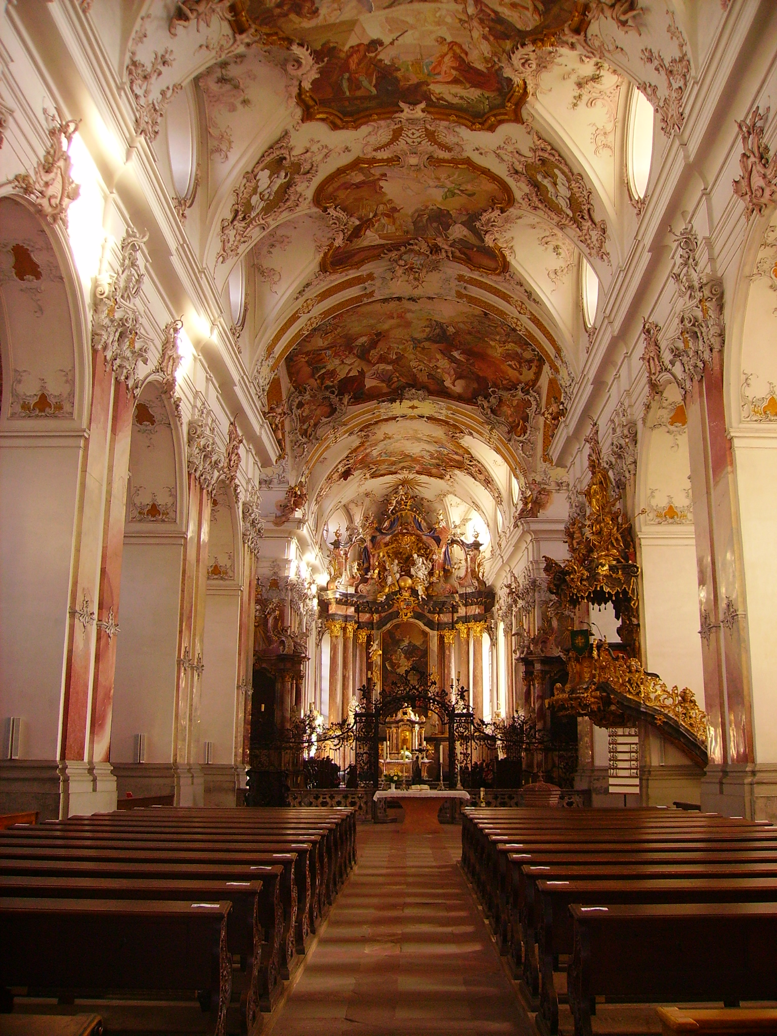 Nave of Amorbach Monastery Church, Amorbach